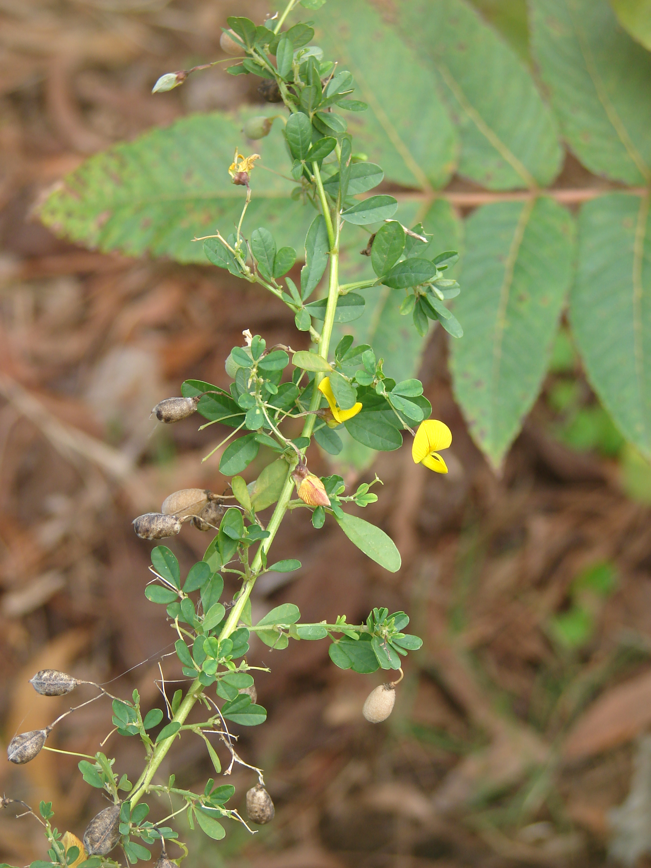 Crotalaria pumila (leaves flowers fruit). Location: Maui, MISC Piiholo